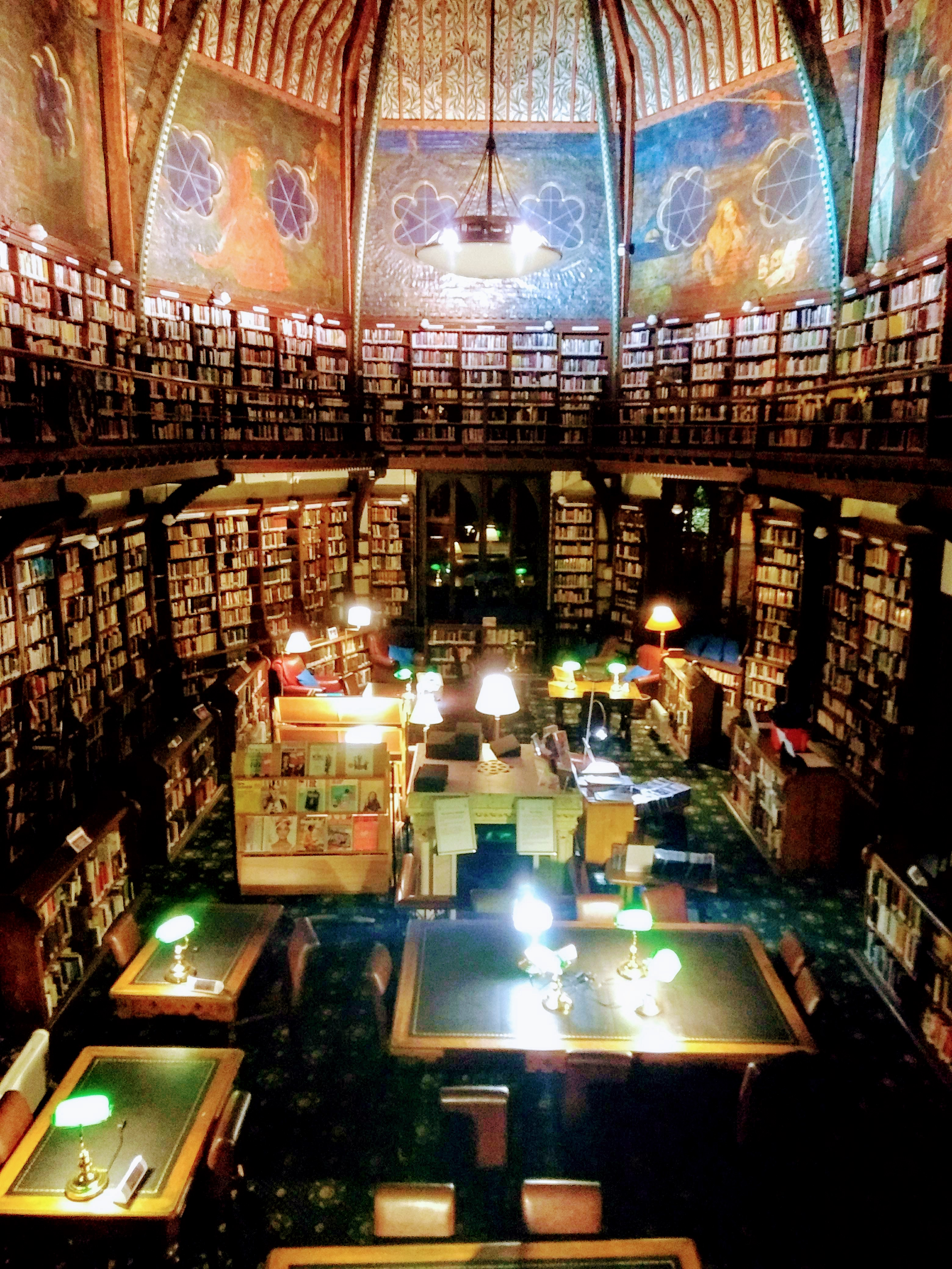 A view from the gallery of the Old Library in the evening.